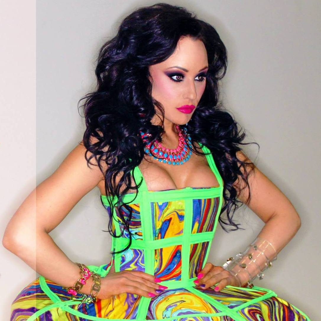 image taken with self timer